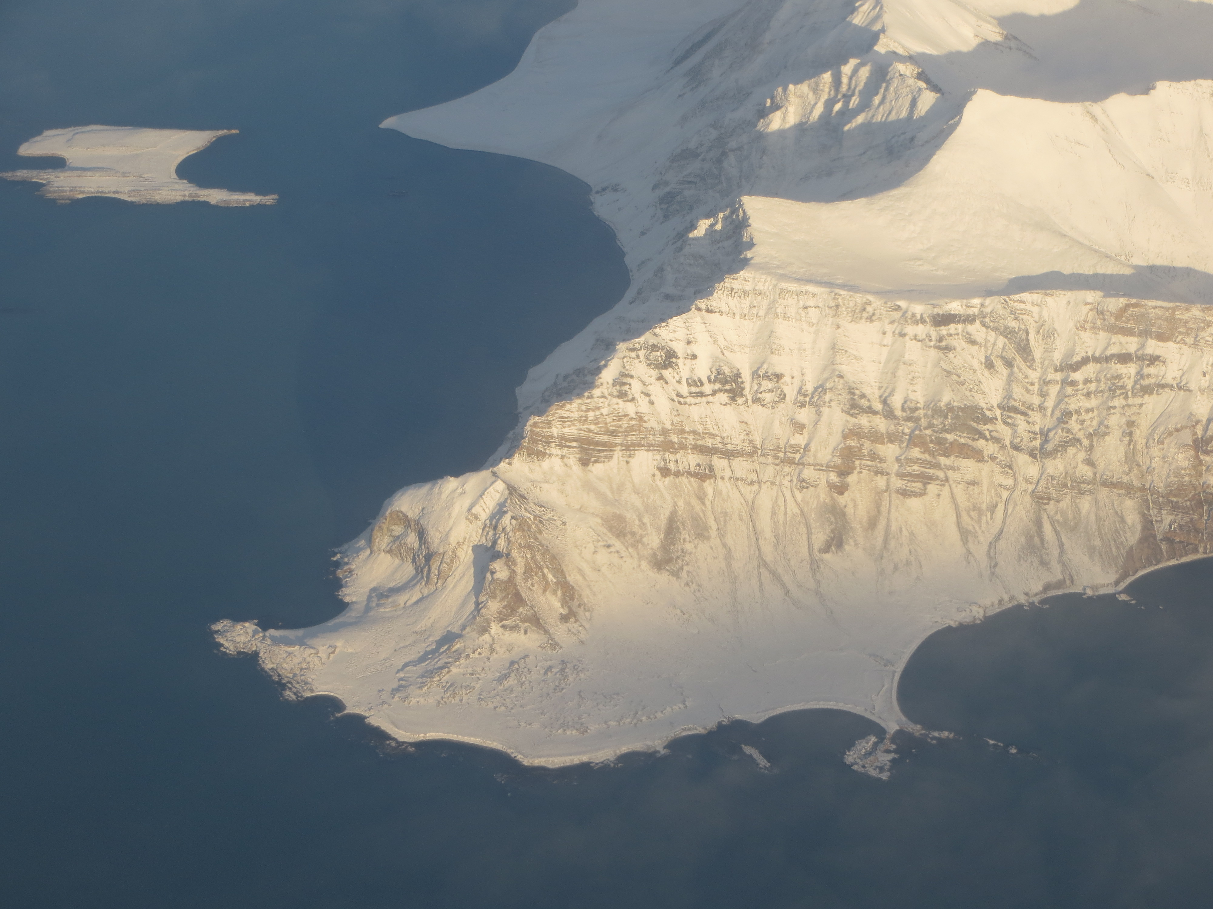 aerial view from the west, over nathorst Land - eastern Spitsbergen, Svalbard (Norway). The fjord is Van Keulenfjorden.